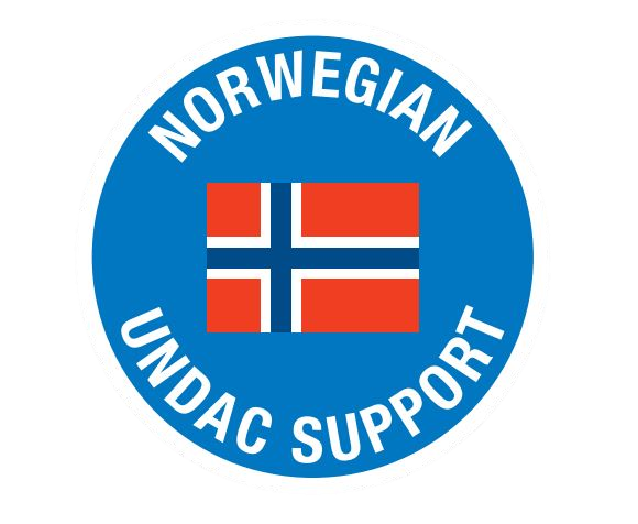 Logo for Norwegian UNDAC Support. A group of the Norwegian civil defence that do international assignment.